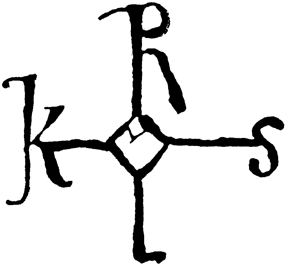 Autograph of Charlemagne.